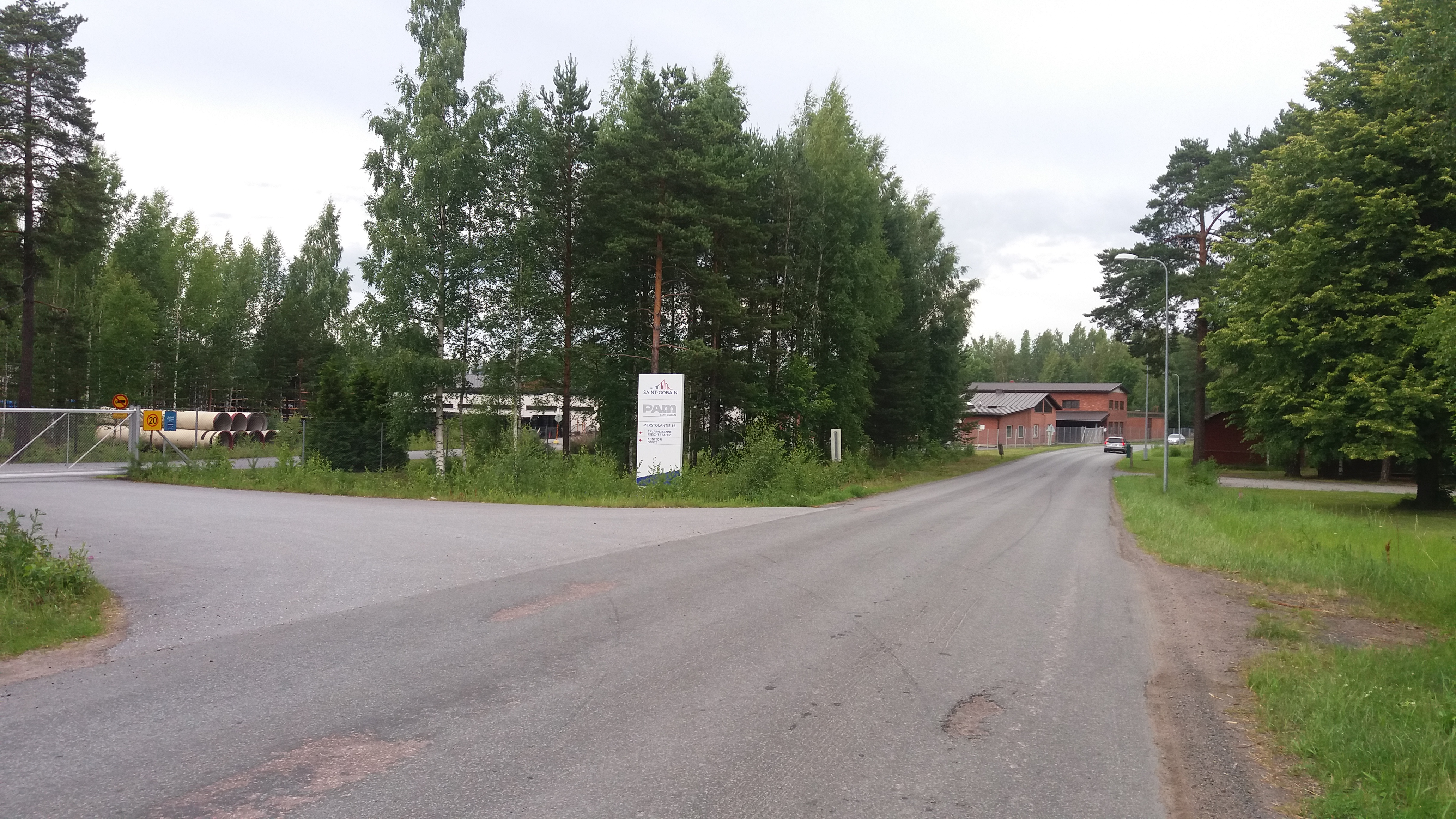 View from Merstola, Harjavalta, Finland with Saint-Gobain Pipe Systems foundry on the left.